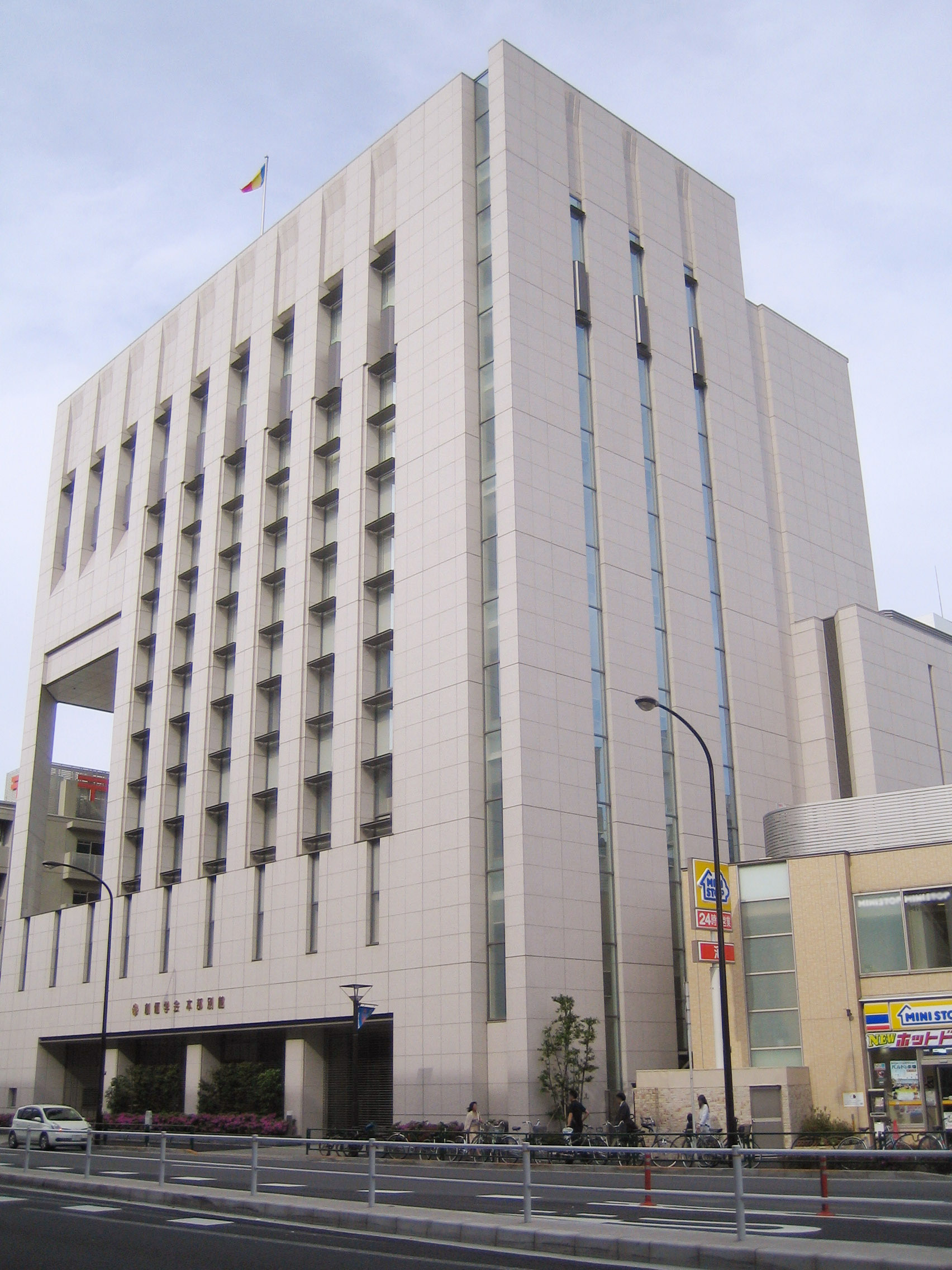 Soka Gakkai (創価学会), at Shinanomachi, Shinjuku, Tokyo, Japan